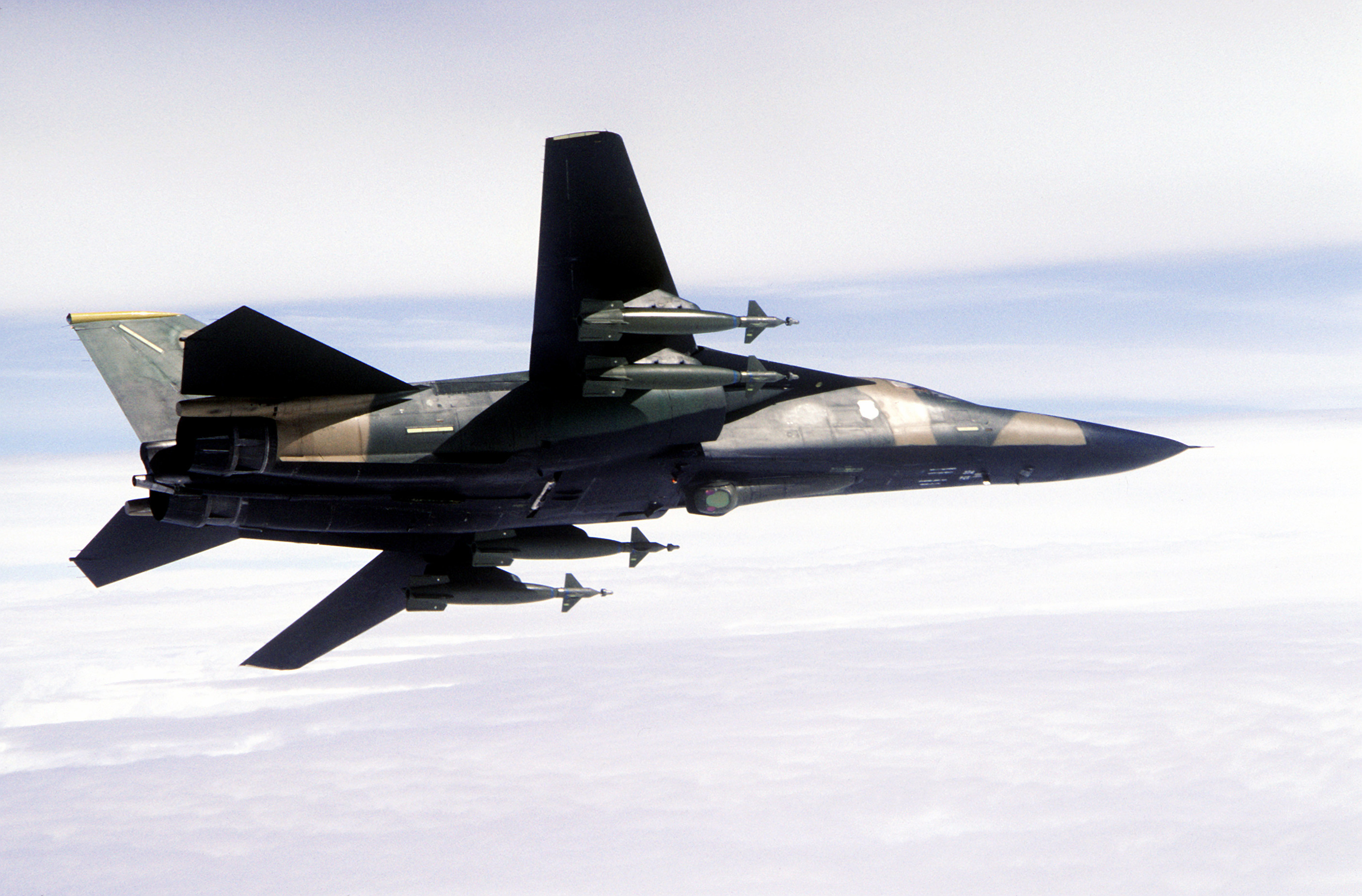 A U.S. Air Force General Dynamics F-111F aircraft, equipped with an AN/AVQ-26 Pave Tack laser target designator, banking to the left over Loch Ness (UK). The aircraft is carrying four GBU-10 Paveway II laser-guided bombs and was assigned to the 493rd Tactical Fighter Squadron, 48th Tactical Fighter Wing, RAF Lakenheath, Suffolk (UK).